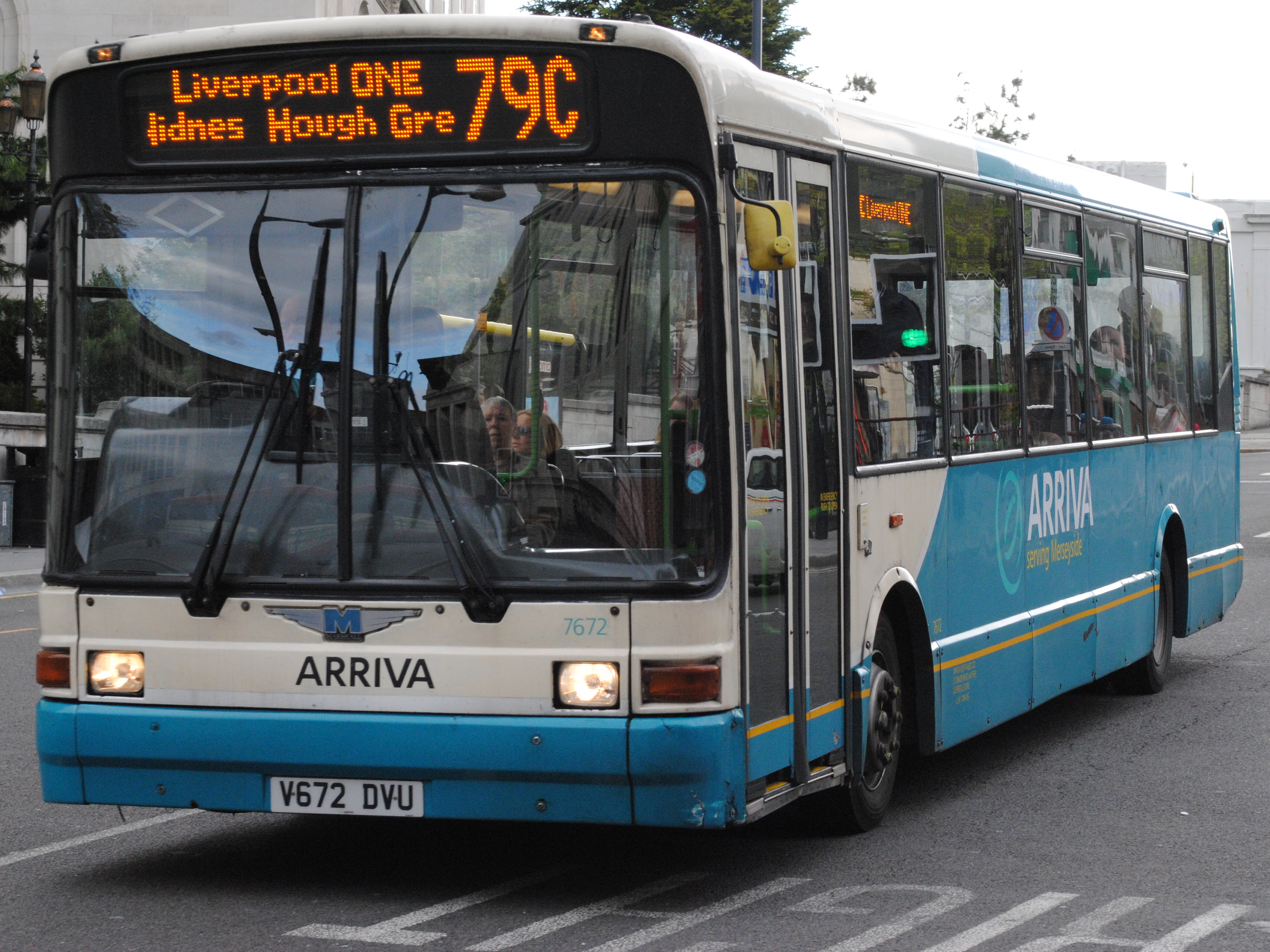 Dennis Dart SLF 10.7m Marshall Capital. on loan at Runcorn Beechwood depot